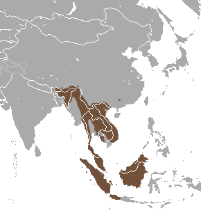 Binturong (Arctictis binturong) range